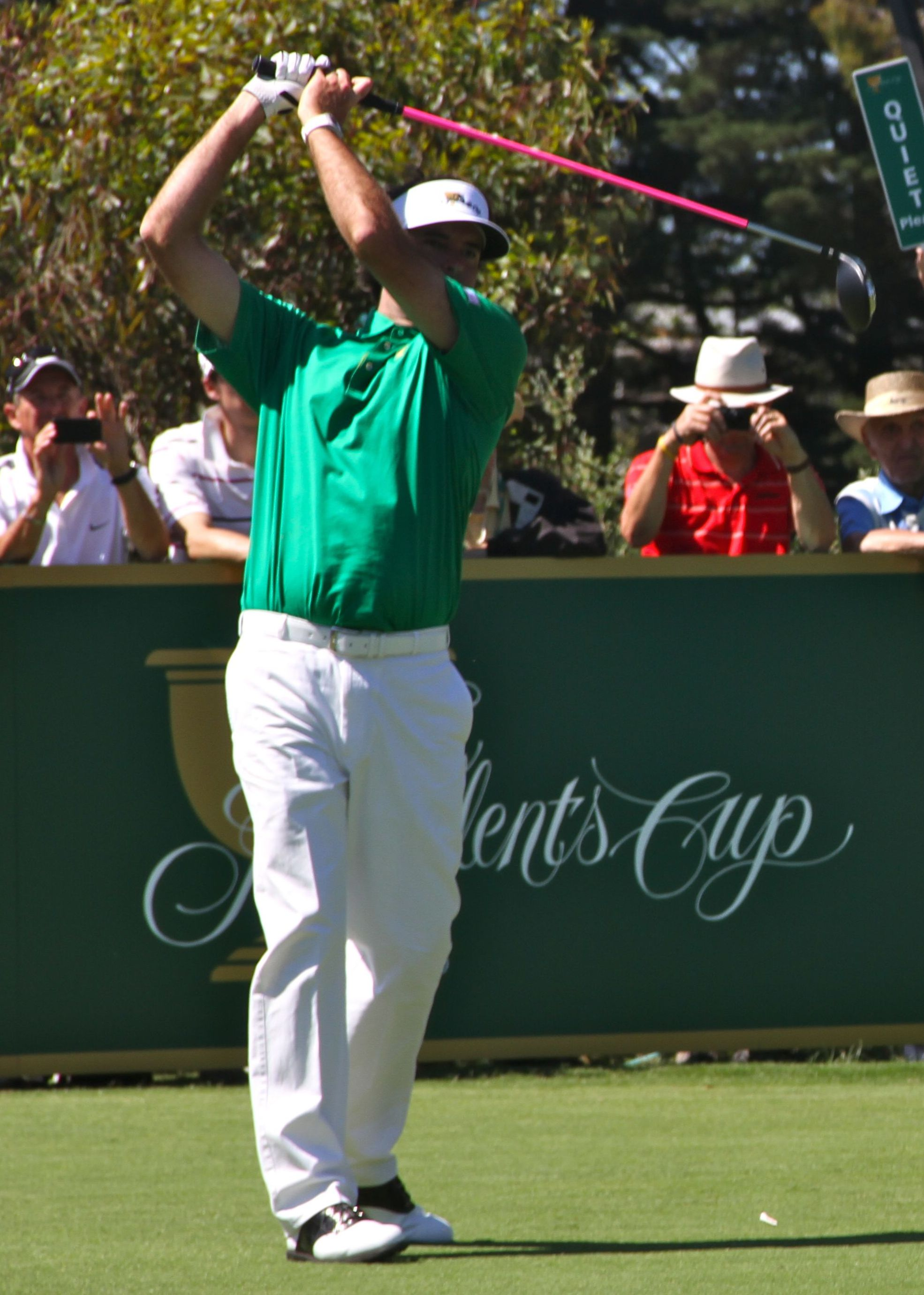 Bubba Watson at the 2011 Presidents Cup during a practice round on 15 November.